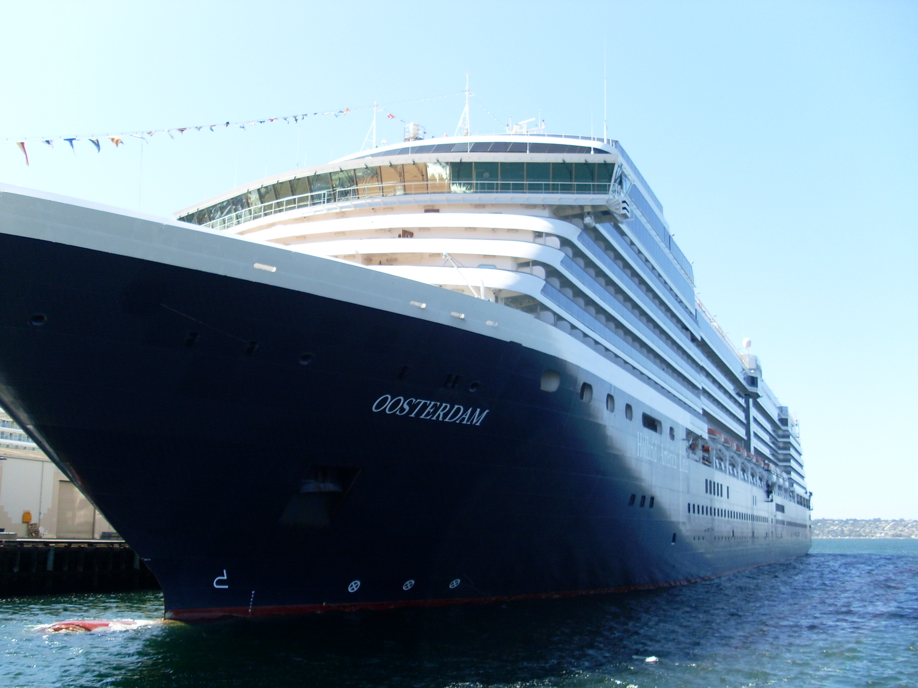 MS Oosterdam at San Diego port.